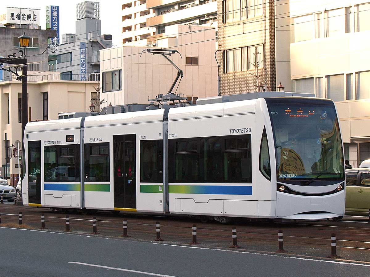 Toyohashi Railroad T1000 series tramcar set T1001